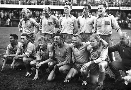 Swedish squad at the 1958 FIFA World Cup.